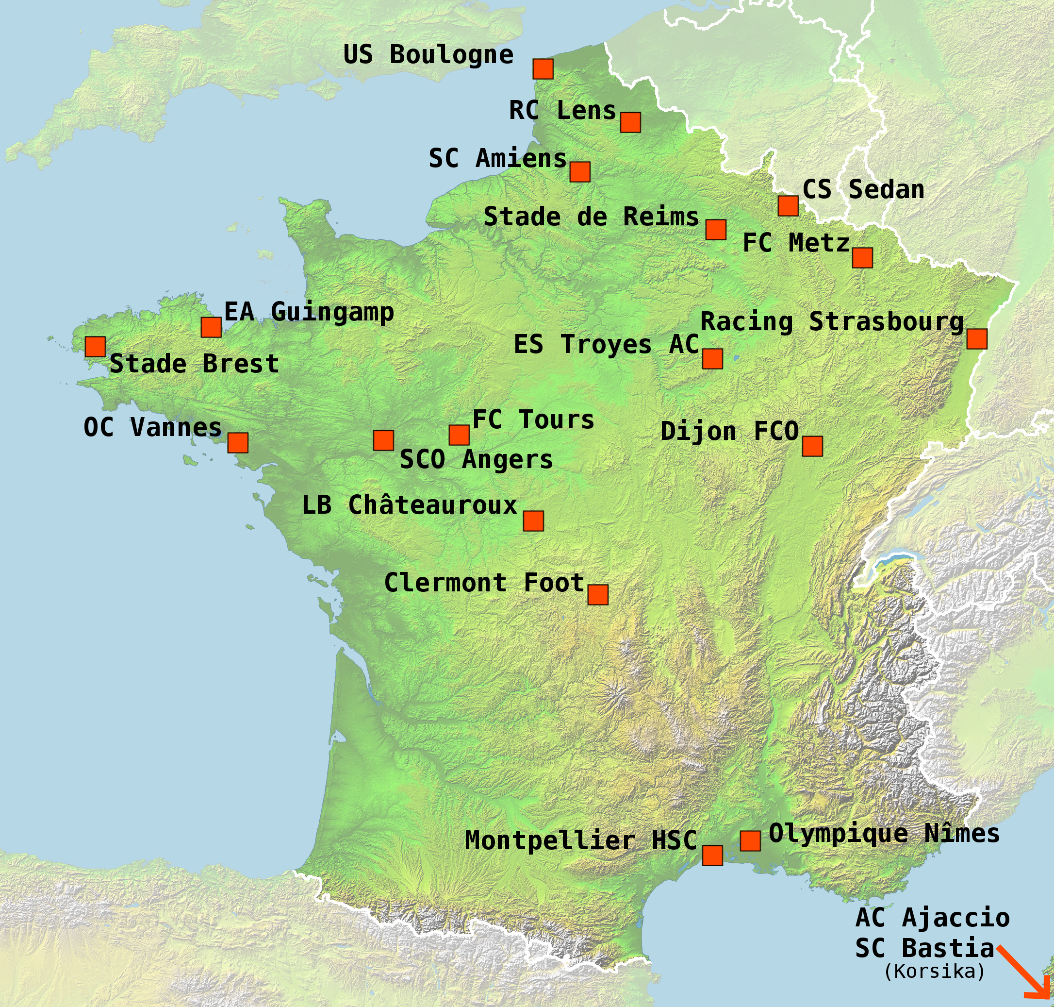 Map of France with locations of Ligue 2-FCs 2008/09